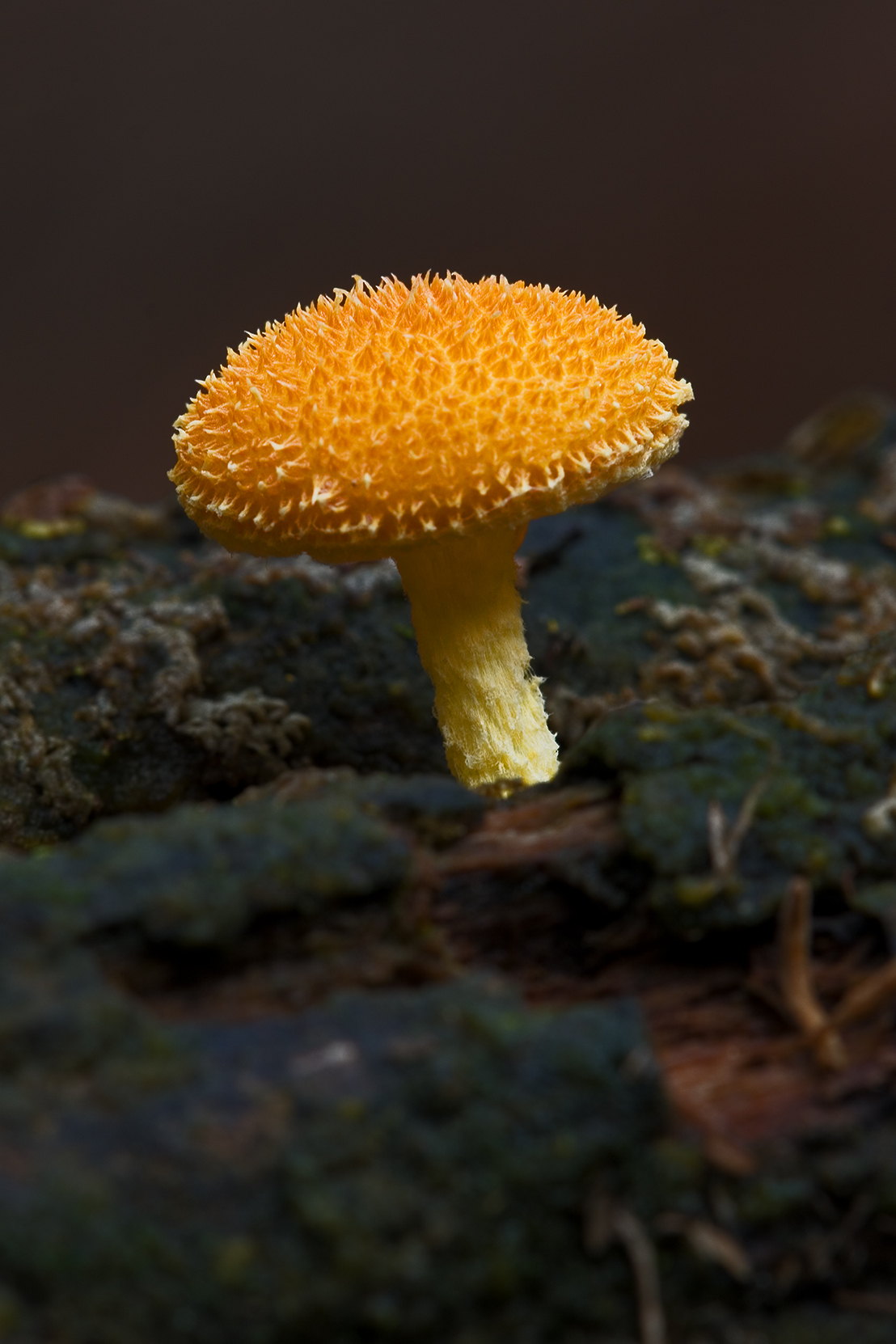 Cyptotrama asprata, Wielangta Forest, Tasmania Camera data Camera Canon EOS 400D Lens Tamron EF 180mm f3.5 1:1 Macro Focal length 180 mm Aperture f/11 Exposure time 1/2 s Sensivity ISO 100